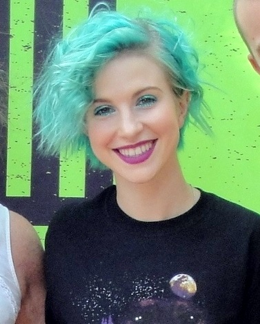 Hayley Williams from Paramore.